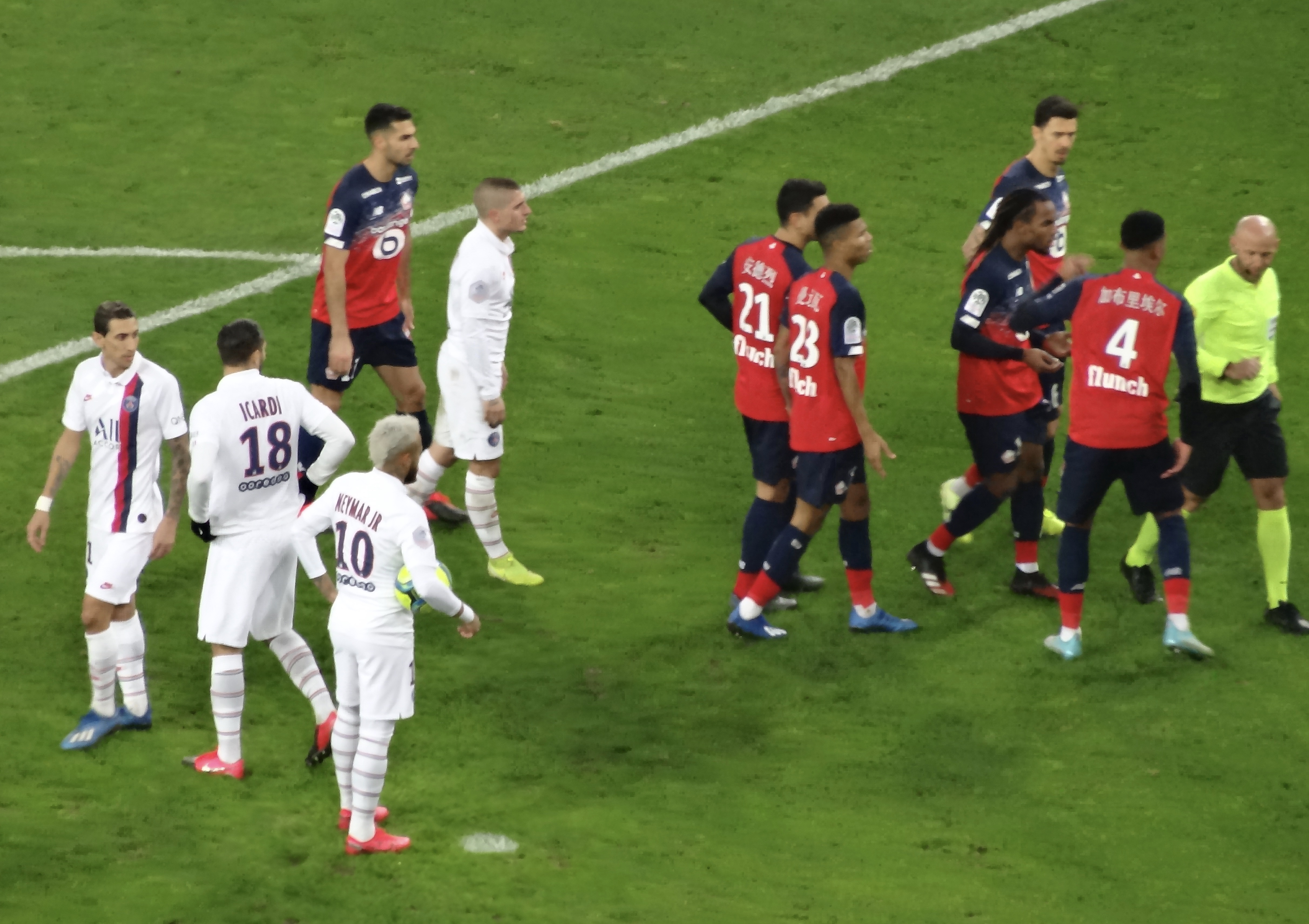 LOSC chinese new year